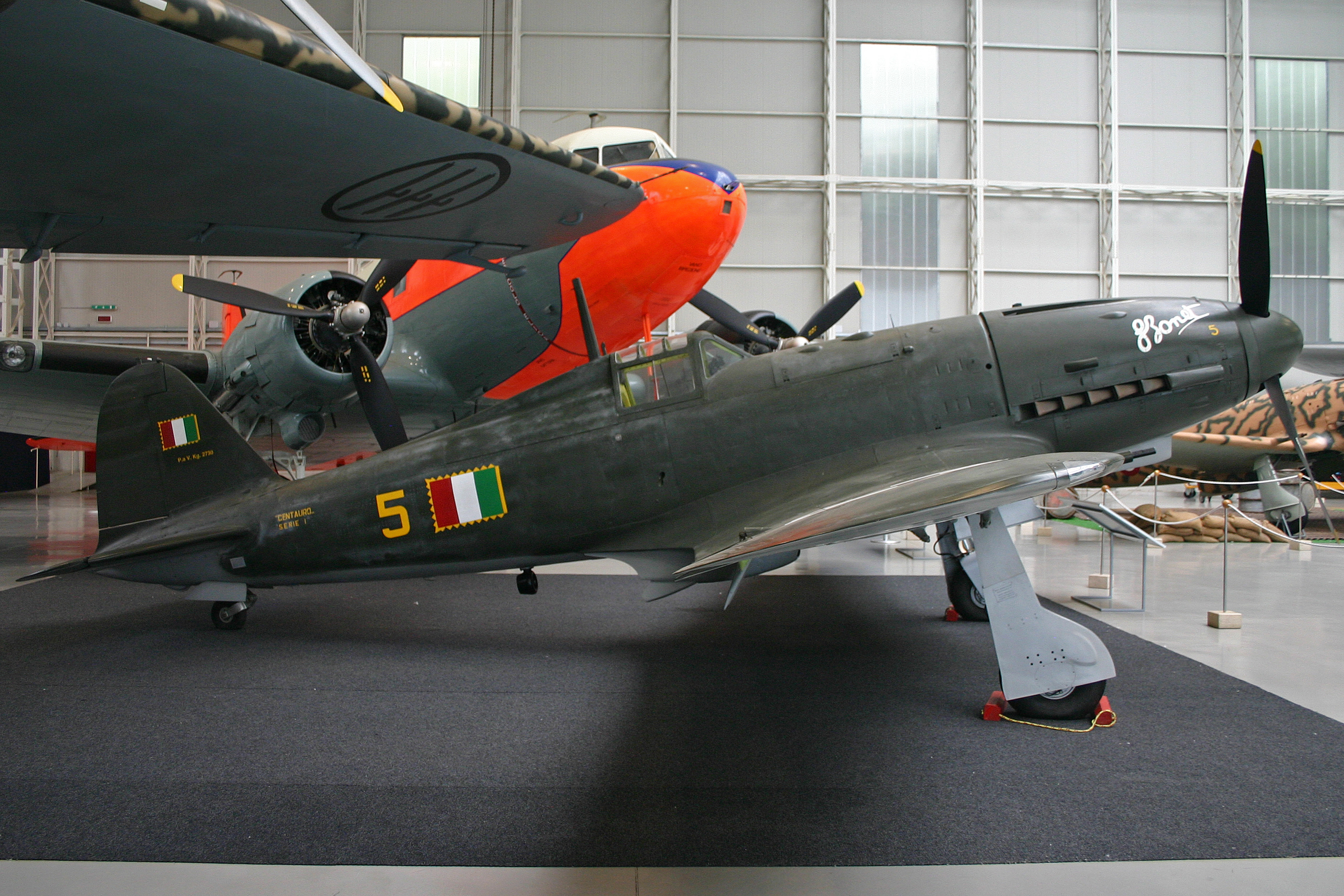 Displayed in Hangar BADONI. This is actually Fiat G.59-4A MM53265 (msn74) extensively rebuilt to represent a Fiat G.55. It is very convincing!!